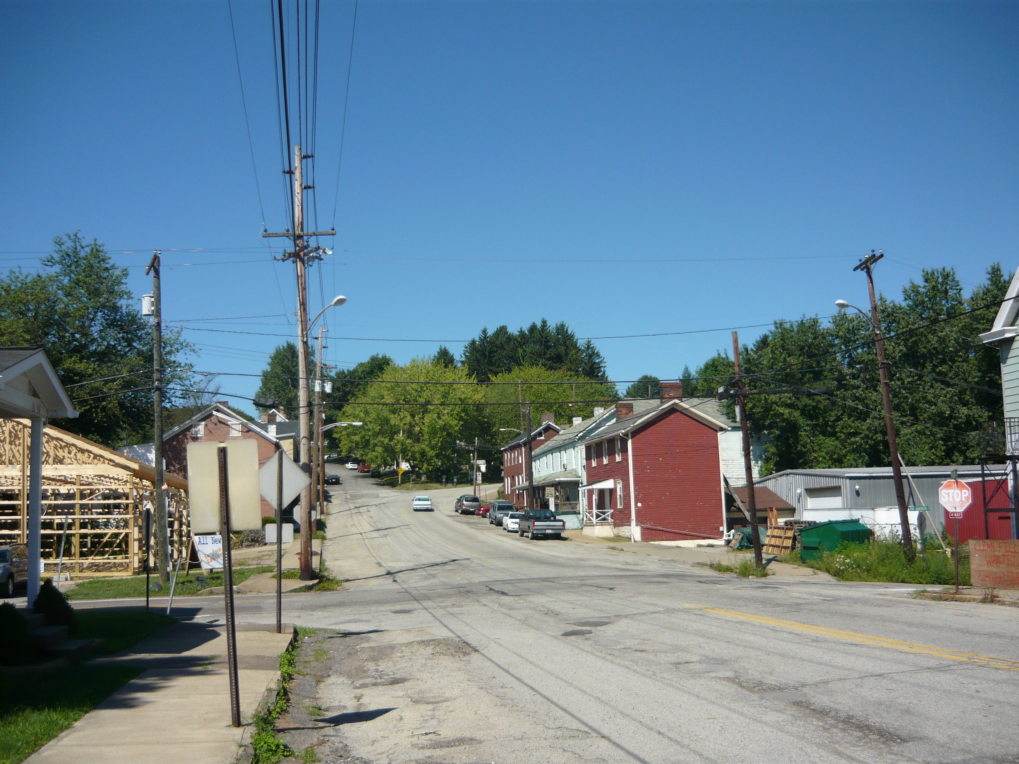 Main Street (looking westward), Adamsburg, Westmoreland County, Pennsylvania.